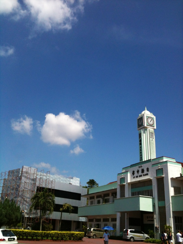 School bell